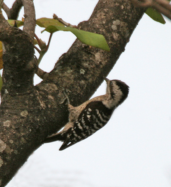 Grey-capped Pygmy Woodpecker Dendrocopos canicapillus at Jayanti in Buxa Tiger Reserve in Jalpaiguri district of West Bengal, India.